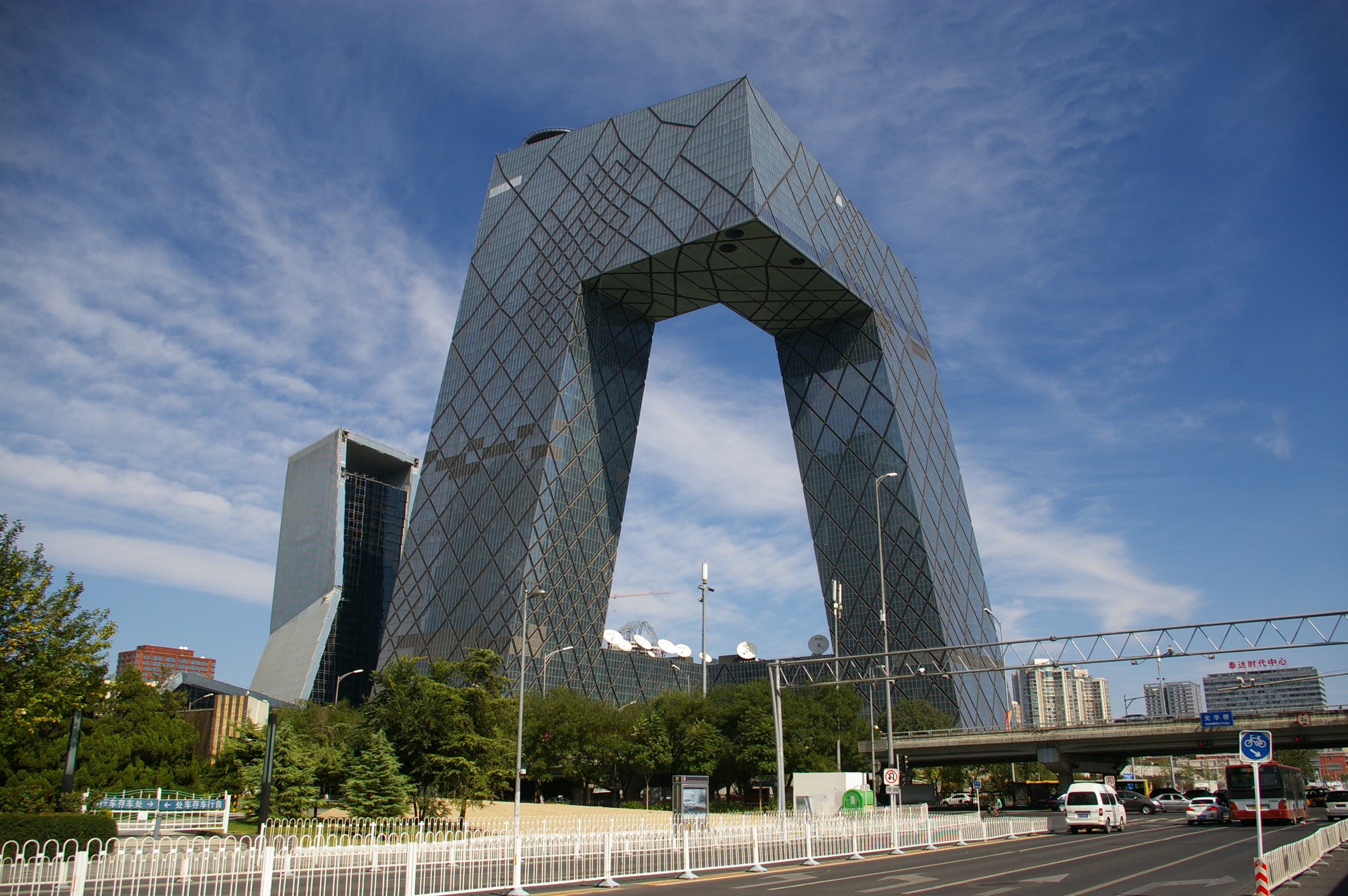 中国中央电视台2012.10.03China Central Television